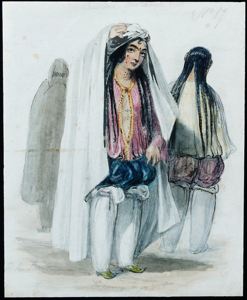 Sketches in Afganistán By James Atkinson 1842